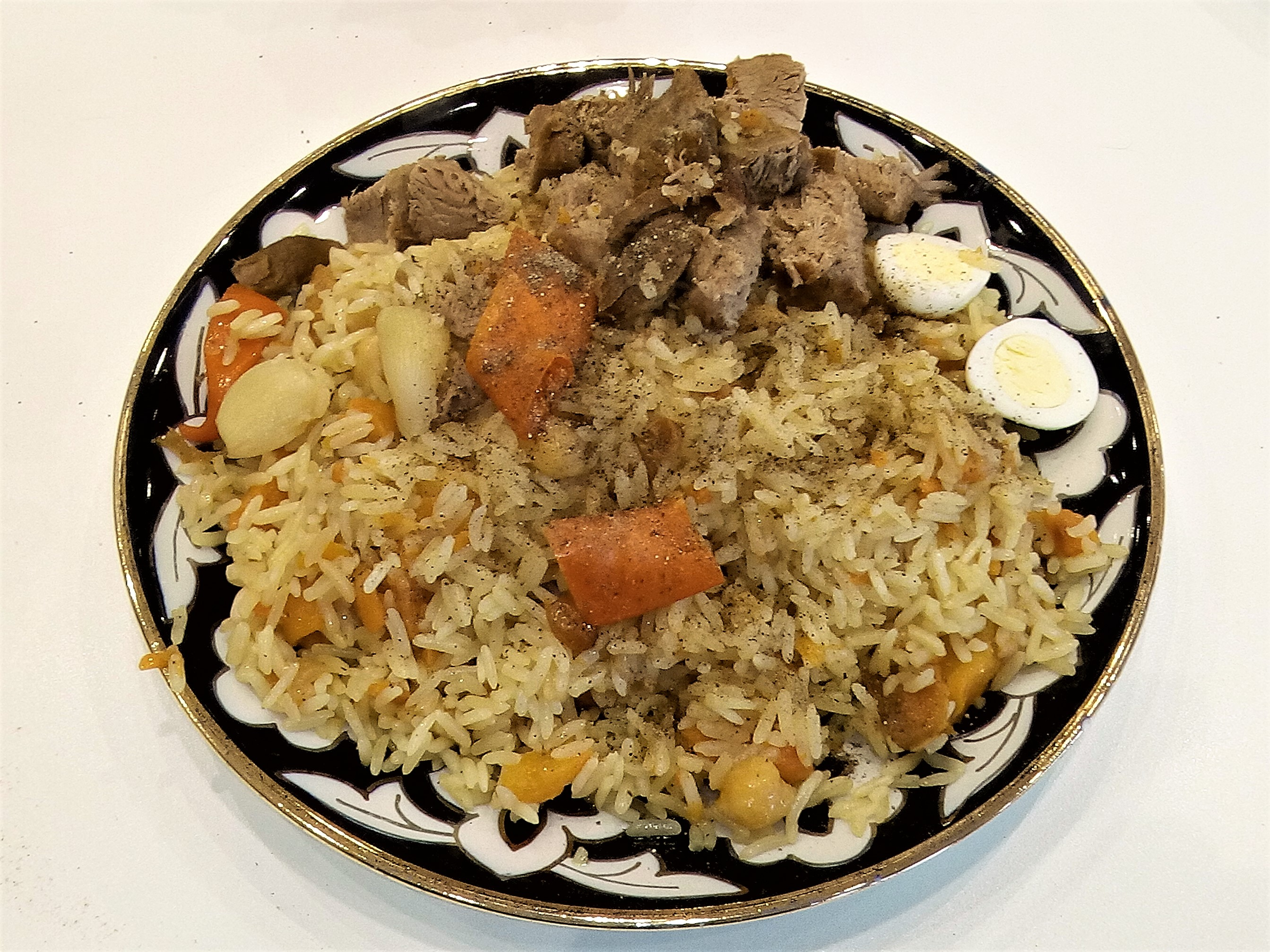 Uzbek palov in Yerevan Food Court, Armenia